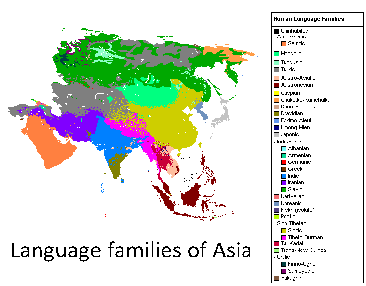 Of the many language families of Asia, Indo-European (purple, blue, and medium green) and Sino-Tibetan (chartreuse and pink) dominate numerically, while Altaic families (grey, bright green, and maroon) occupy large areas geographically. Regionally dominant families are Japonic in Japan, Austronesian in the Malay Archipelago (dark red), Kadai and Mon–Khmer in Southeast Asia (azure and peach), Dravidian in South India (khaki), Turkic in Central Asia (grey), and Semitic in the Mideast (orange).